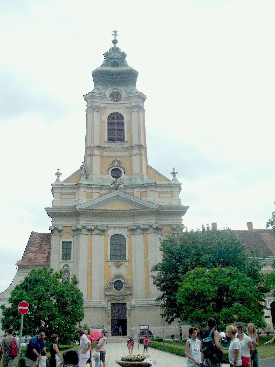 The Cistercian Church in Szentgothárd